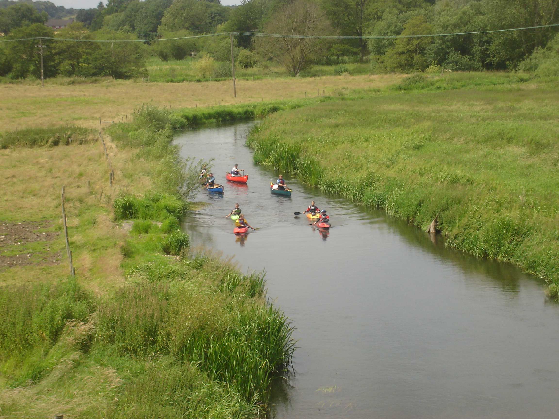 Picture of the River Wensum at Costessey, Norfolk